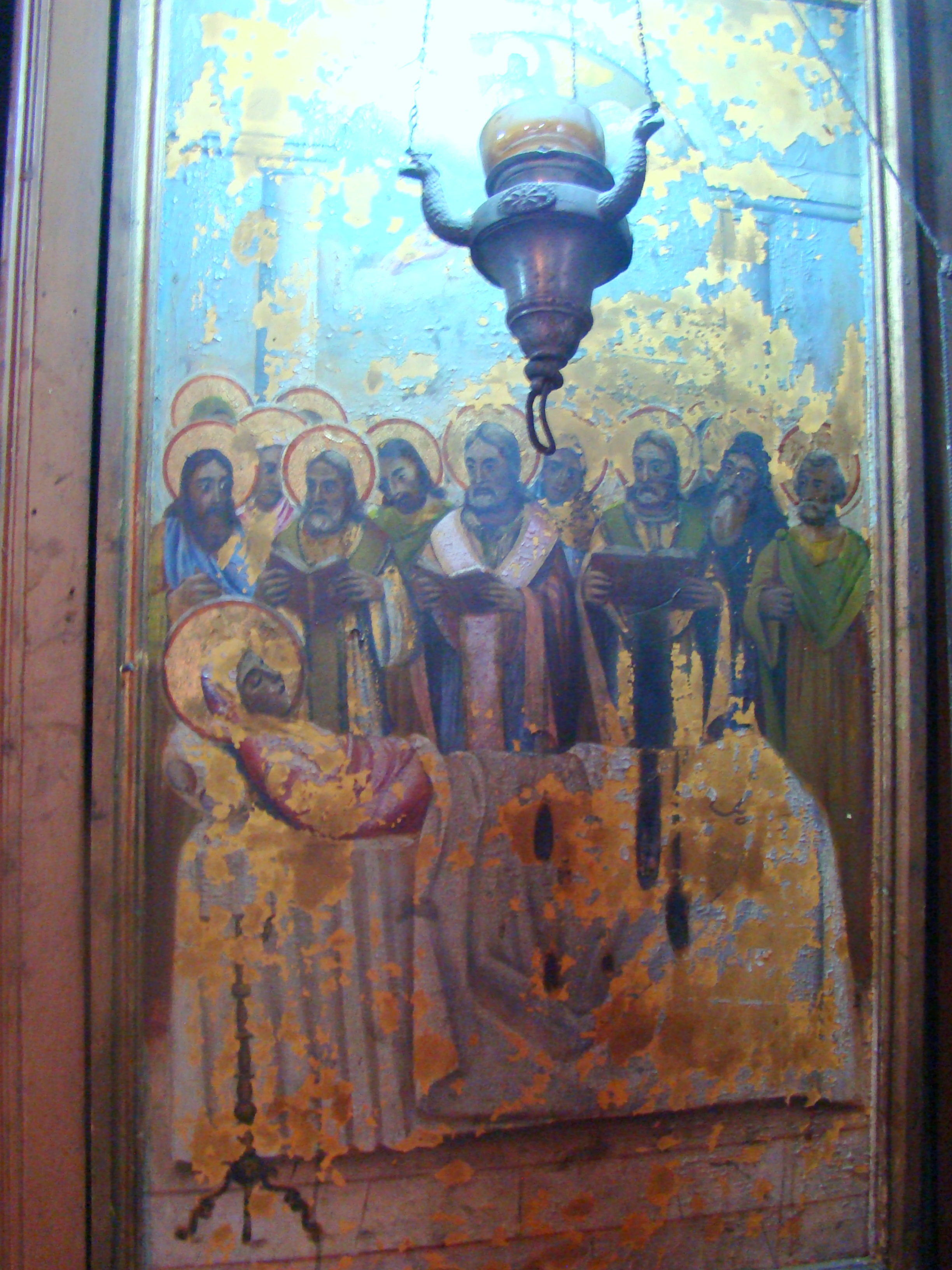 Church of the Dormition in Lupoița, Gorj county, Romania